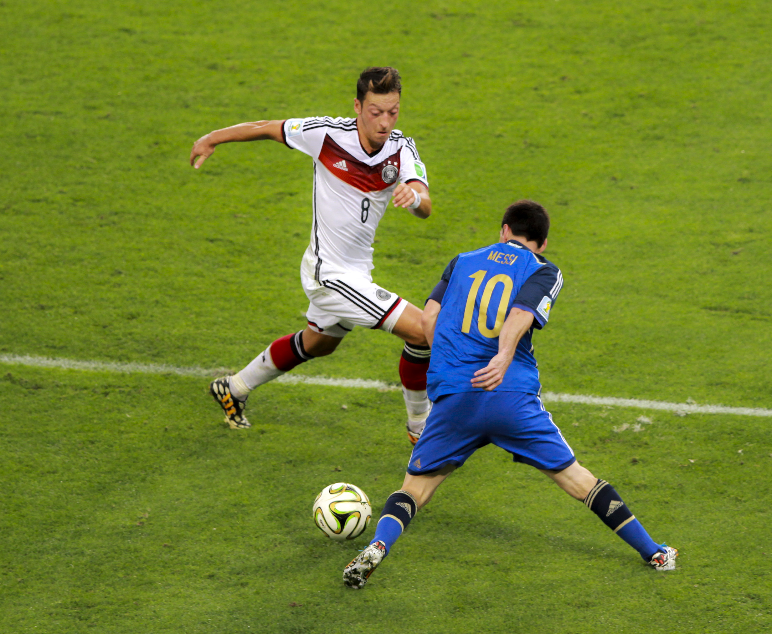 The final match of World Cup 2014 between Germany and Argentina 2014-07-13